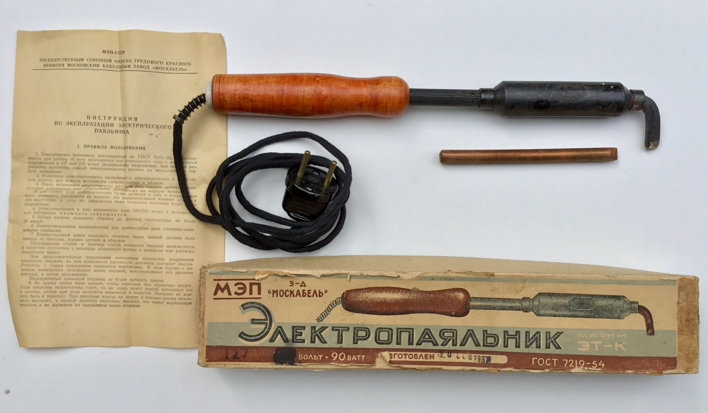 Soviet soldering iron in 1957, 127 volts